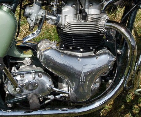 1955 A7SS Shooting Star engine with separate gearbox